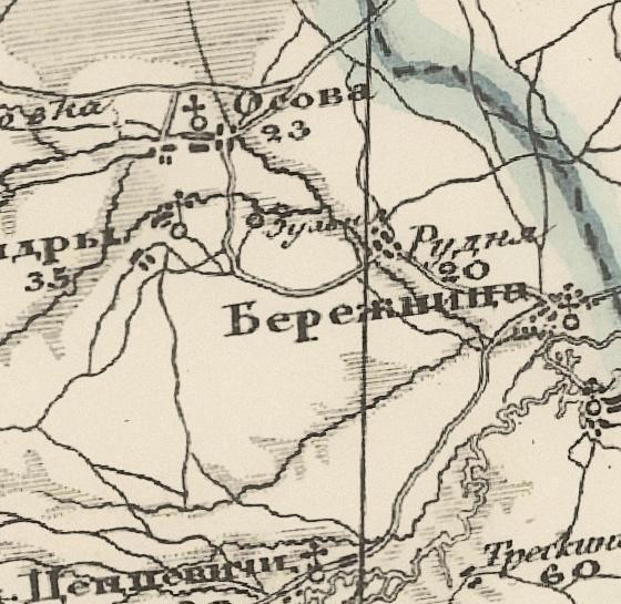 Berezhnytsia and Zulnia on the map "Специальная карта Западной части Российской Империи, составленная и гравированная в 1/420000 долю настоящей величины при Военно-Топографическом Депо, во время управления генерал квартирмейстера Нейдгарта под руководством генерал-лейтенанта Шуберта" (known as "Schubert's map"), 1826-1840.